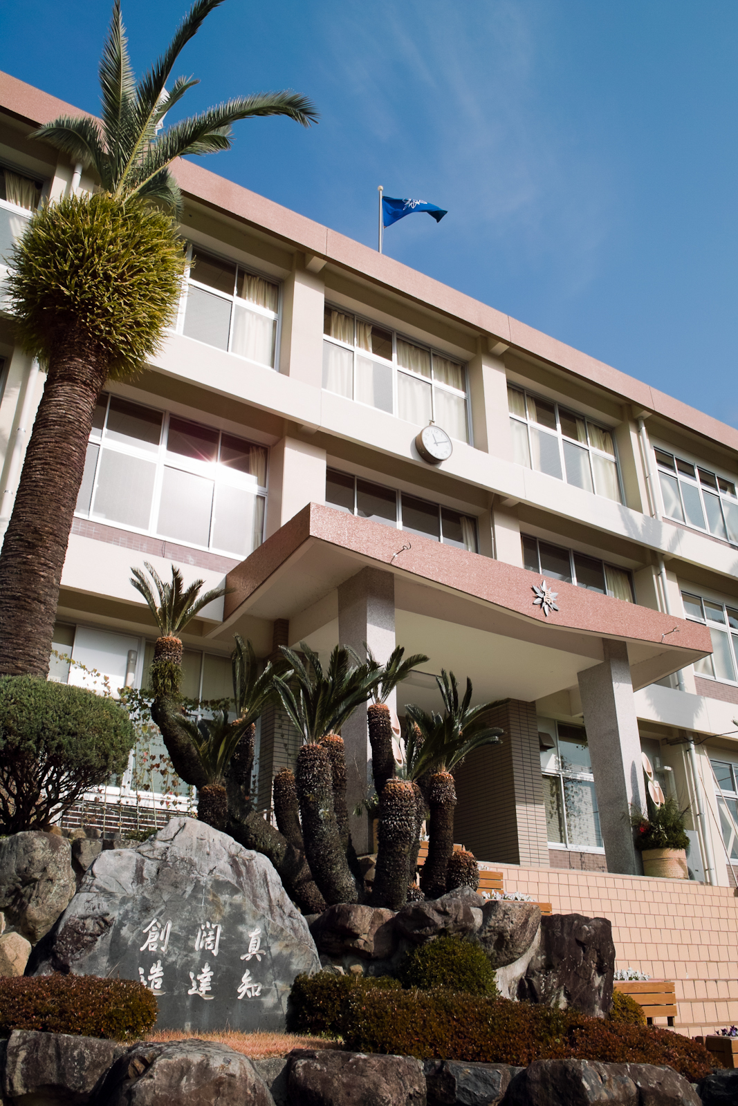 Minamiuwa High School